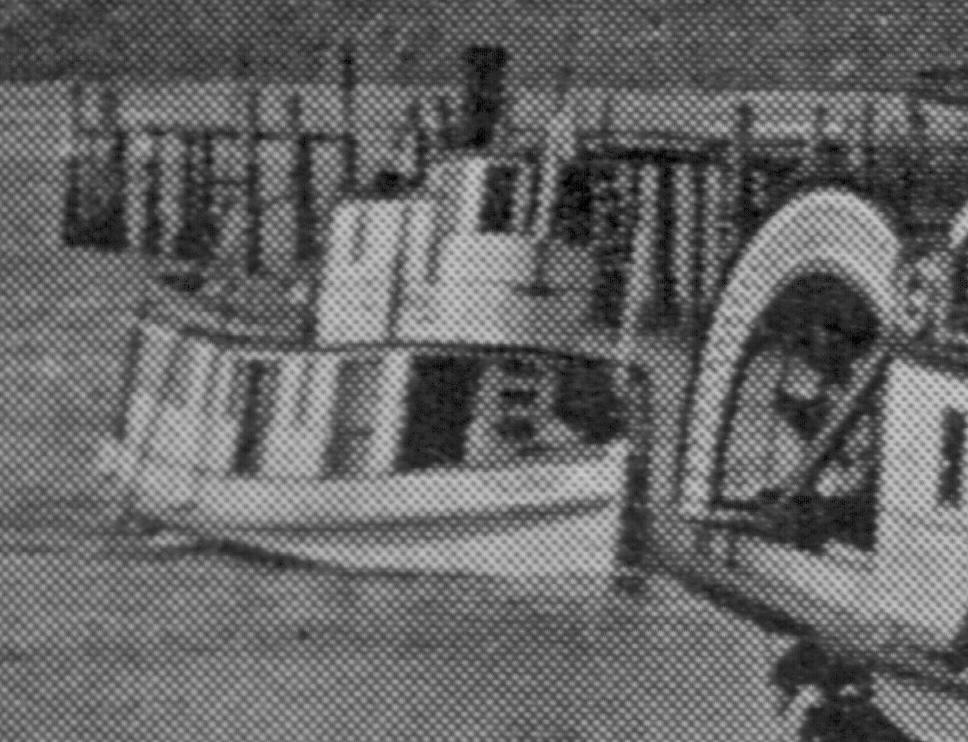 This shows the steamer Mizpah coming into Percival dock at Olympia, Washington, USA. Just the the right is sternwheel of the S.G. Simpson